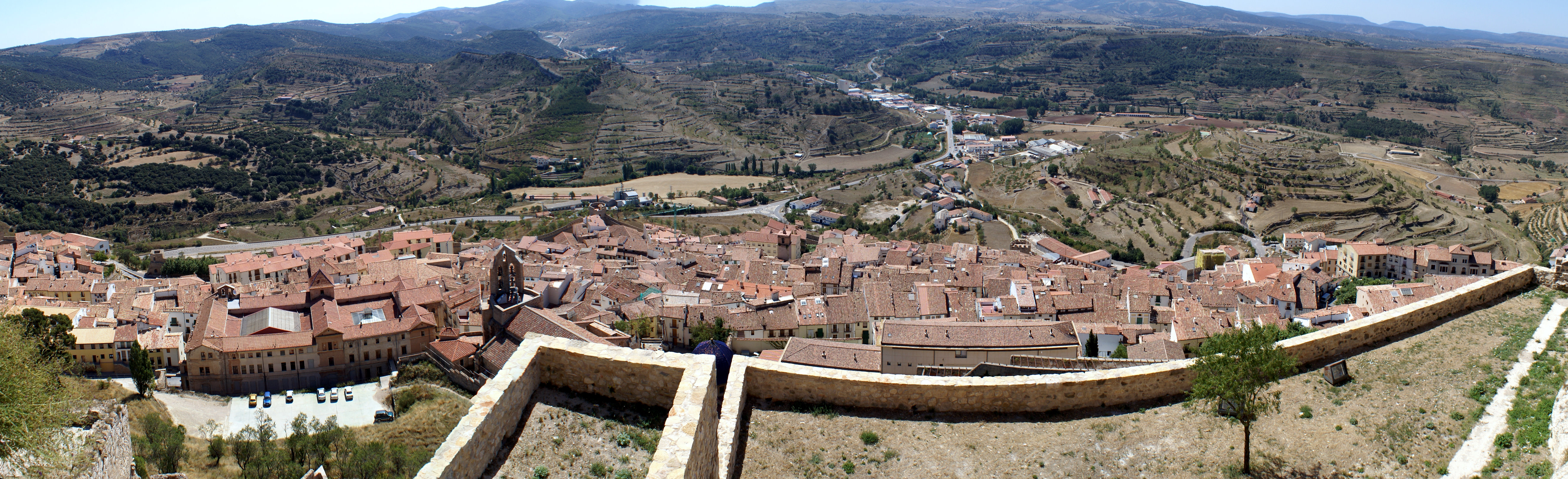 Panoramic view of Morella (Castellón, Spain) from the castle.